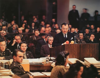 Robert H. Jackson acting as Chief United States prosecutor at the Nuremberg Trials